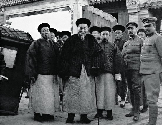 Li Hongzhang 1900 in Beijing